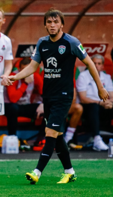 Reziuan Mirzov with FC Tosno in a game against FC Lokomotiv Moscow.